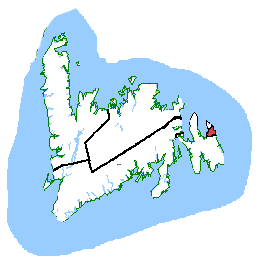 Map of the St. John's South—Mount Pearl electoral district. Based on Earl Andrew's maps, created by SimonP.